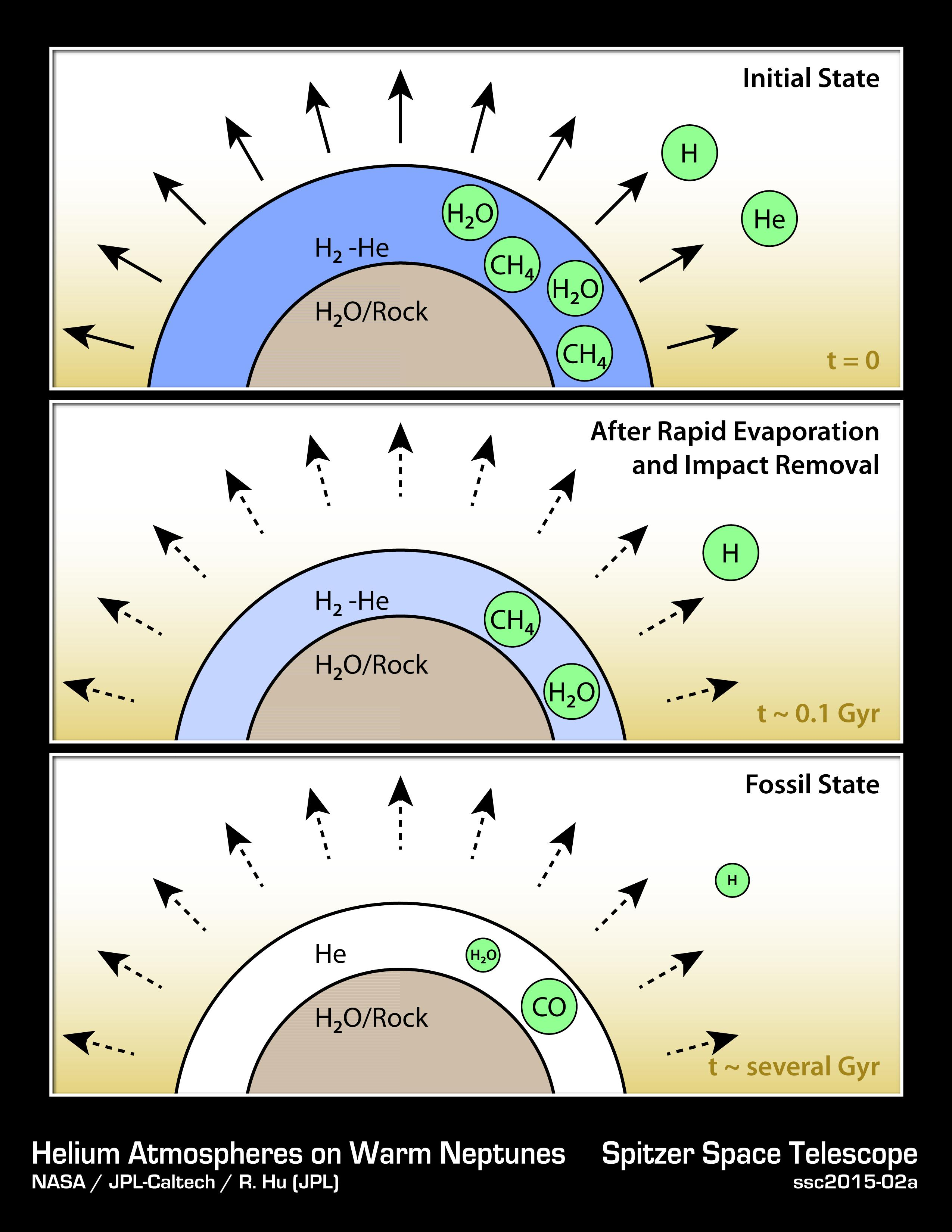 PIA19345: How to Make a Helium Atmosphere NASA's Spitzer Space Telescope observed a proposed helium planet, GJ 436b. This diagram illustrates how hypothetical helium atmospheres might form. These would be on planets about the mass of Neptune, or smaller, which orbit tightly to their stars, whipping around in just days. They are thought to have cores of water or rock, surrounded by thick atmospheres of gas. Radiation from their nearby stars would boil off hydrogen and helium, but because hydrogen is lighter, more hydrogen would escape. It's also possible that planetary bodies, such as asteroids, could impact the planet, sending hydrogen out into space. Over time, the atmospheres would become enriched in helium. With less hydrogen in the planets' atmospheres, the concentration of methane and water would go down. Both water and methane consist in part of hydrogen. Eventually, billions of years later (a "Gyr" equals one billion years), the abundances of the water and methane would be greatly reduced. Since hydrogen would not be abundant, the carbon would be forced to pair with oxygen, forming carbon monoxide. NASA's Spitzer Space Telescope observed a proposed helium planet, GJ 436b, with these traits: it lacks methane, and appears to contain carbon monoxide. Future observations are needed to detect helium itself in the atmospheres of these planets, and confirm this theory. NASA's Jet Propulsion Laboratory, Pasadena, California, manages the Spitzer Space Telescope mission for NASA's Science Mission Directorate, Washington. Science operations are conducted at the Spitzer Science Center at the California Institute of Technology in Pasadena. Spacecraft operations are based at Lockheed Martin Space Systems Company, Littleton, Colorado. Data are archived at the Infrared Science Archive housed at the Infrared Processing and Analysis Center at Caltech. Caltech manages JPL for NASA. For more information about Spitzer, visit and